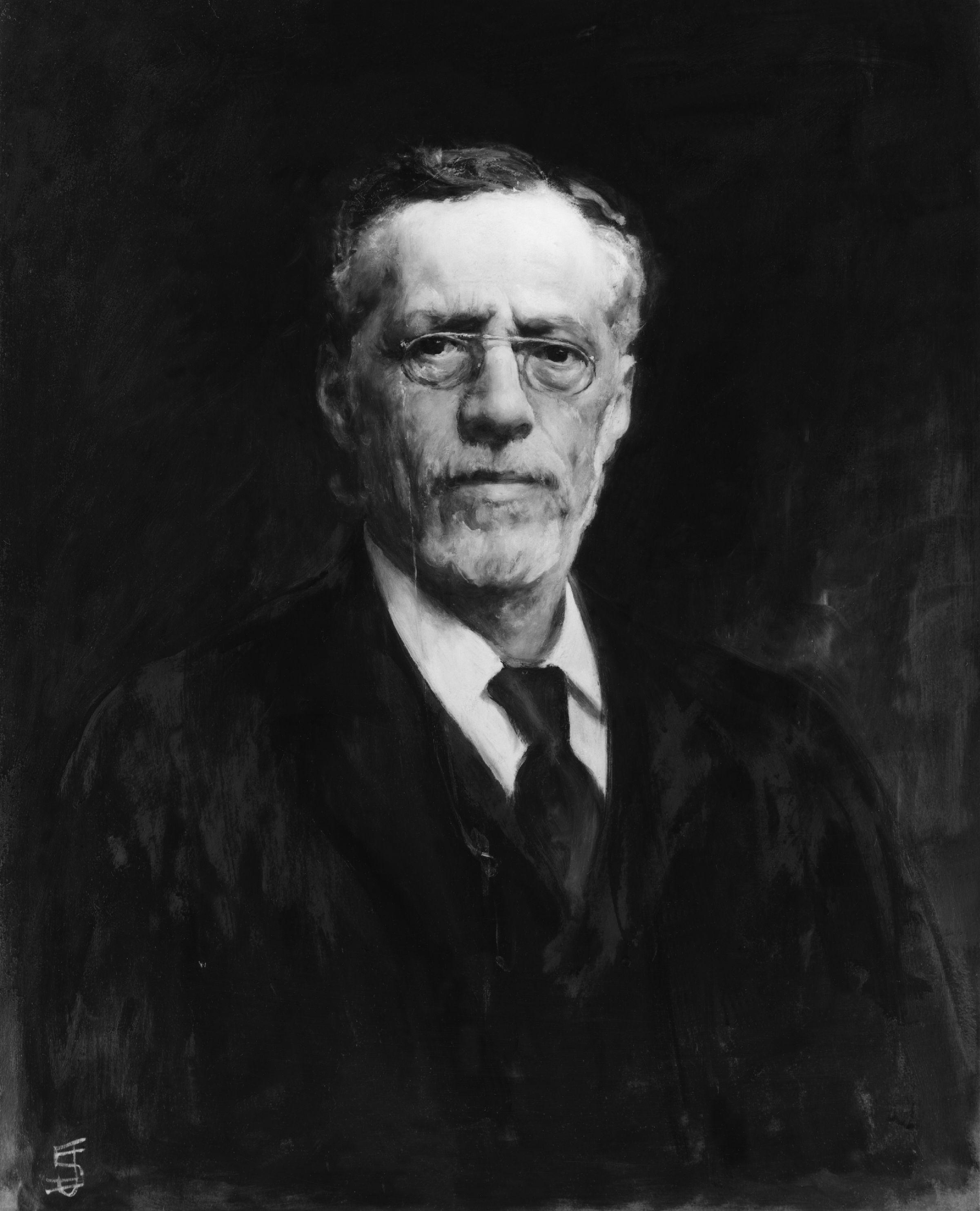 Raphael Meldola, by Solomon Joseph Solomon (died 1927). All images in this batch have been confirmed as author died before 1939 according to the official death date listed by the NPG.